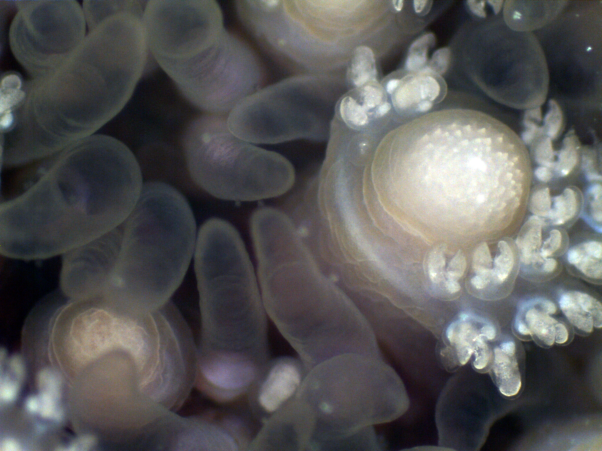 Aboral surface of Asterias forbesi sea star showing pedicellariae surrounding spine and dermal papulae.